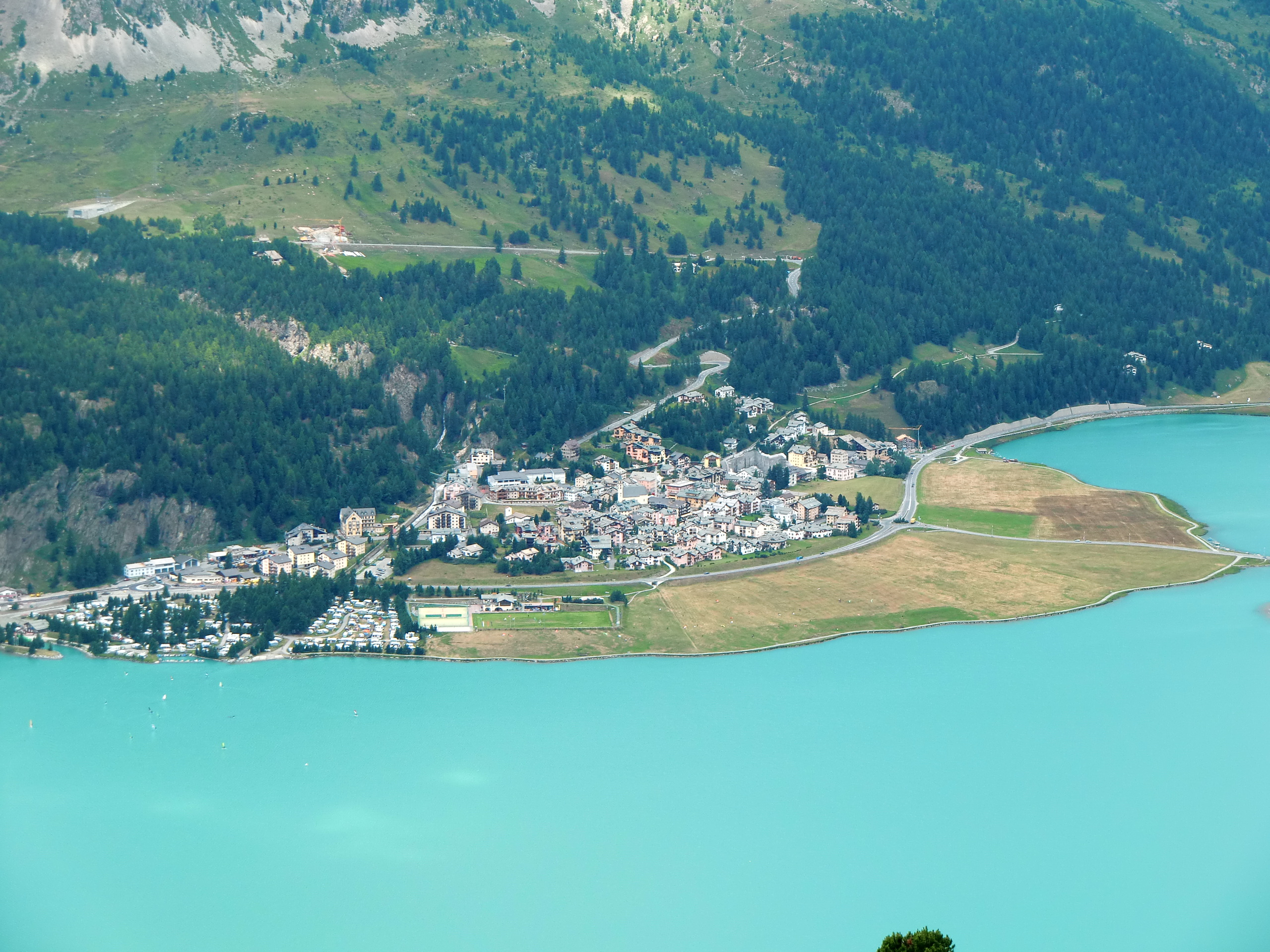 Silvaplana on fan-delta.